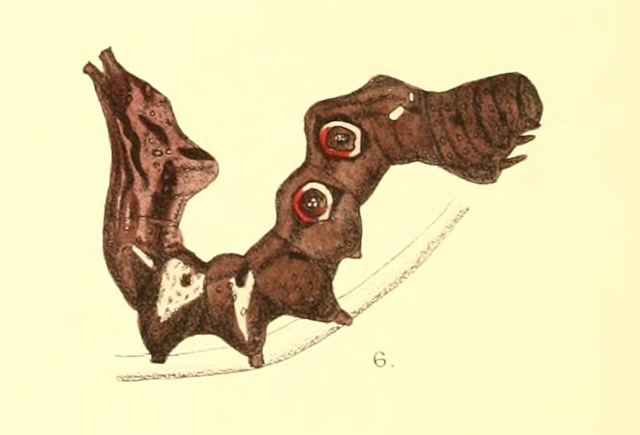 Rhytia hypermnestra larva Moore, Frederic 1880 On the genera and species of the Lepidopterous Subfamily Ophiderinae inhabiting the Indian Region. Zoological Society of London